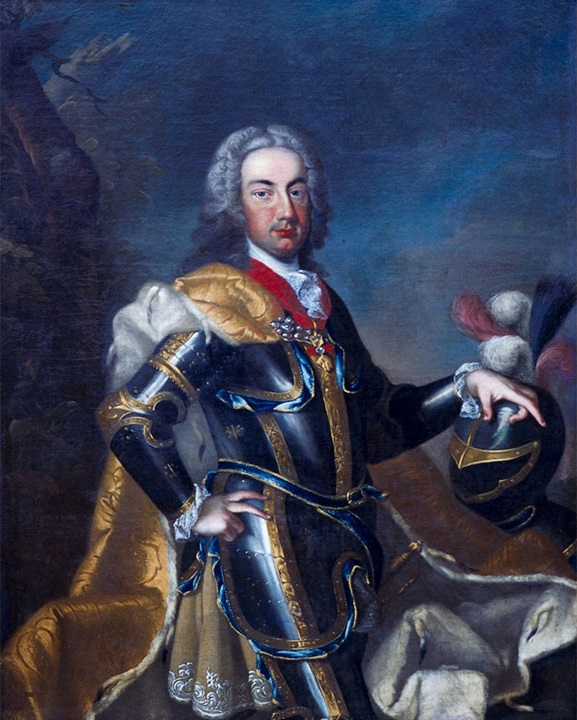 Francis III, Duke of Lorraine